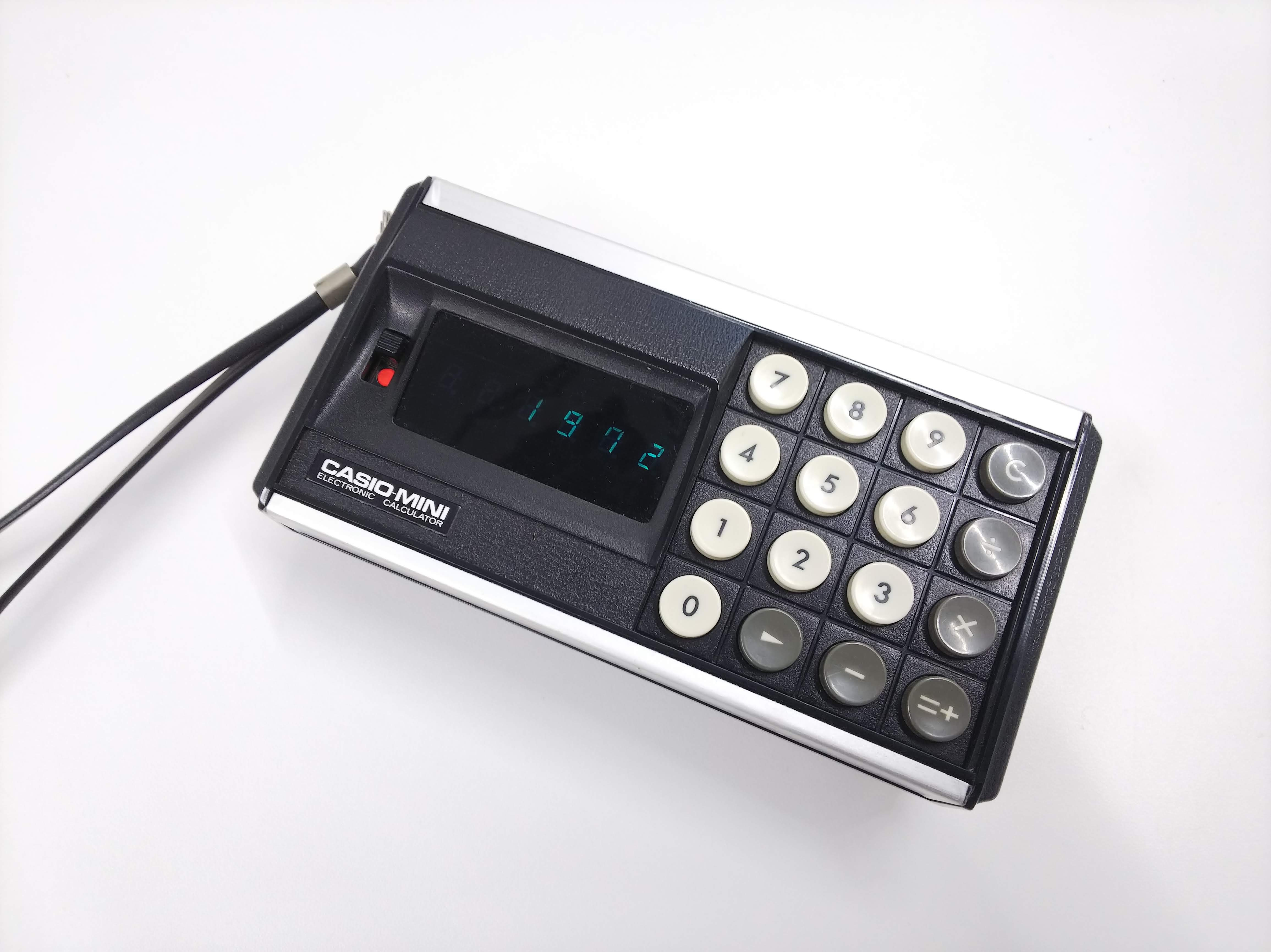 CASIO MINI, electronic calculator (1972, 12800 JPY)